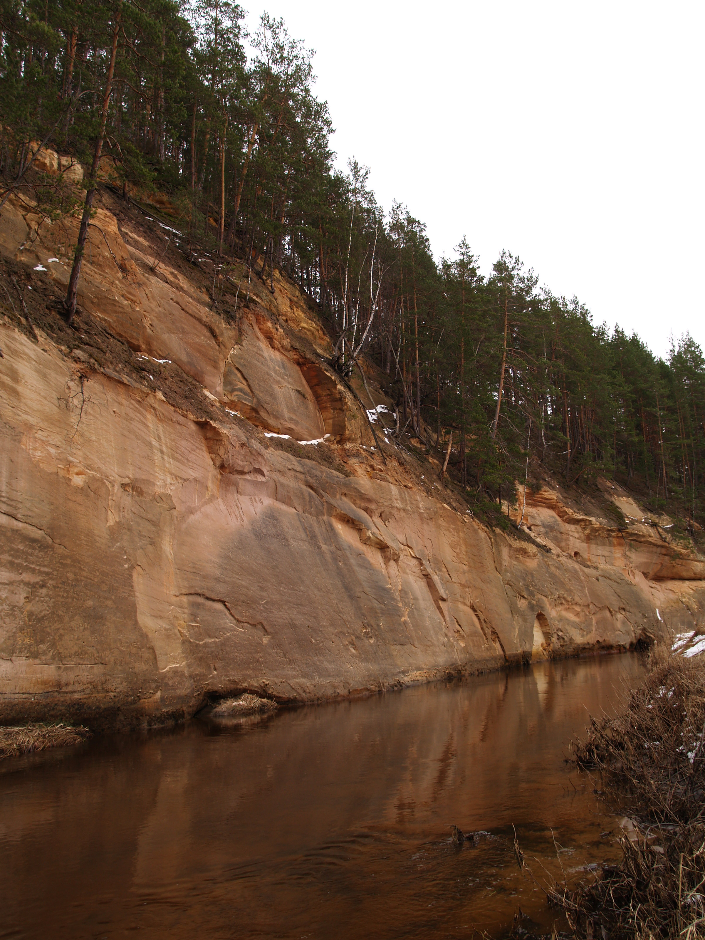 River Piusa at Võrumaa, Estonia.